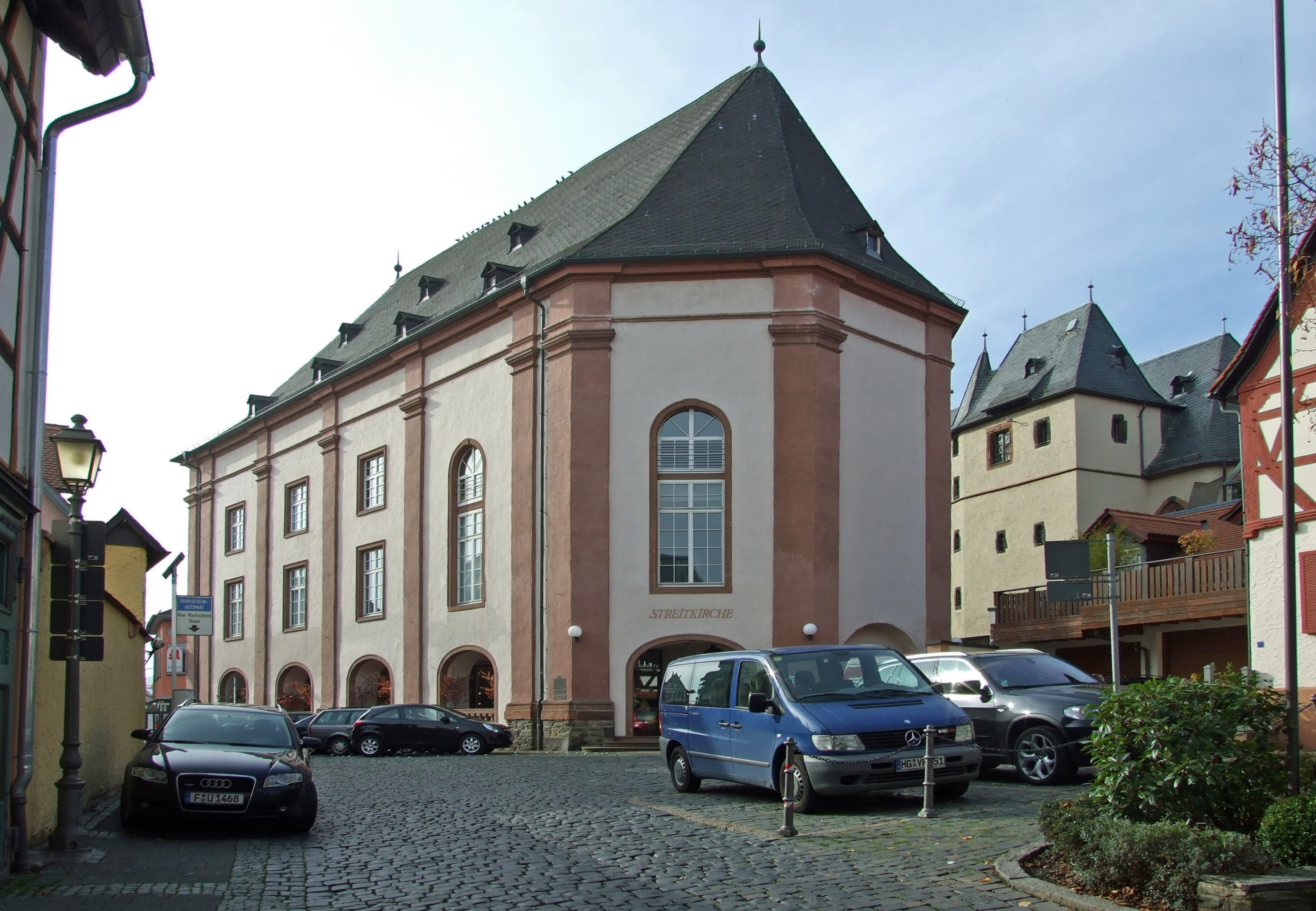 Streitkirche (Quarrel-Church) in Kronberg im Taunus, Germany